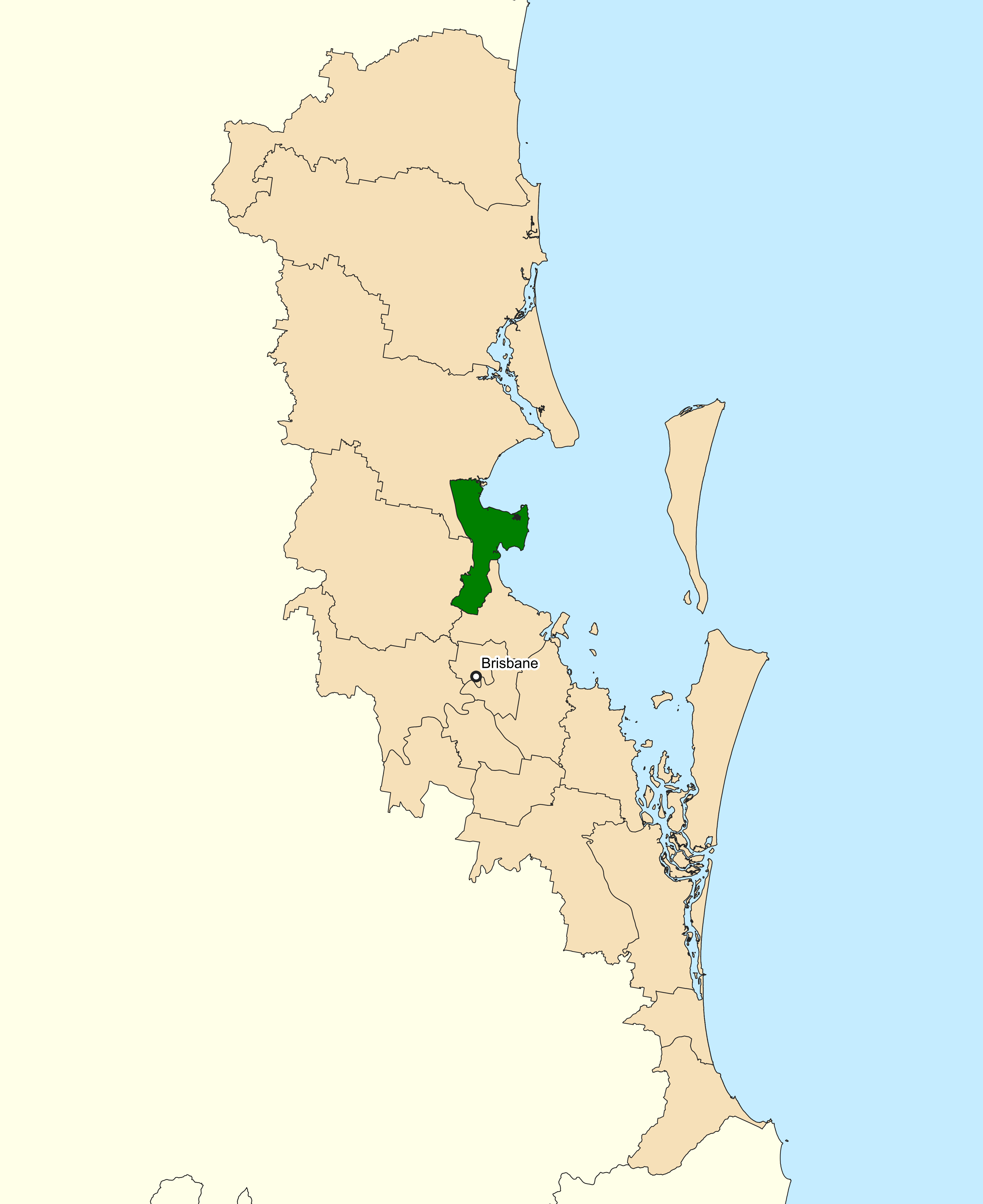 Location of the Australian federal electoral division of Petrie (dark green) in Greater Brisbane, Queensland as of the 2019 Australian federal election. Incorporates or developed using Administrative Boundaries ©PSMA Australia Limited licensed by the Commonwealth of Australia under Creative Commons Attribution 4.0 International licence (CC BY 4.0).